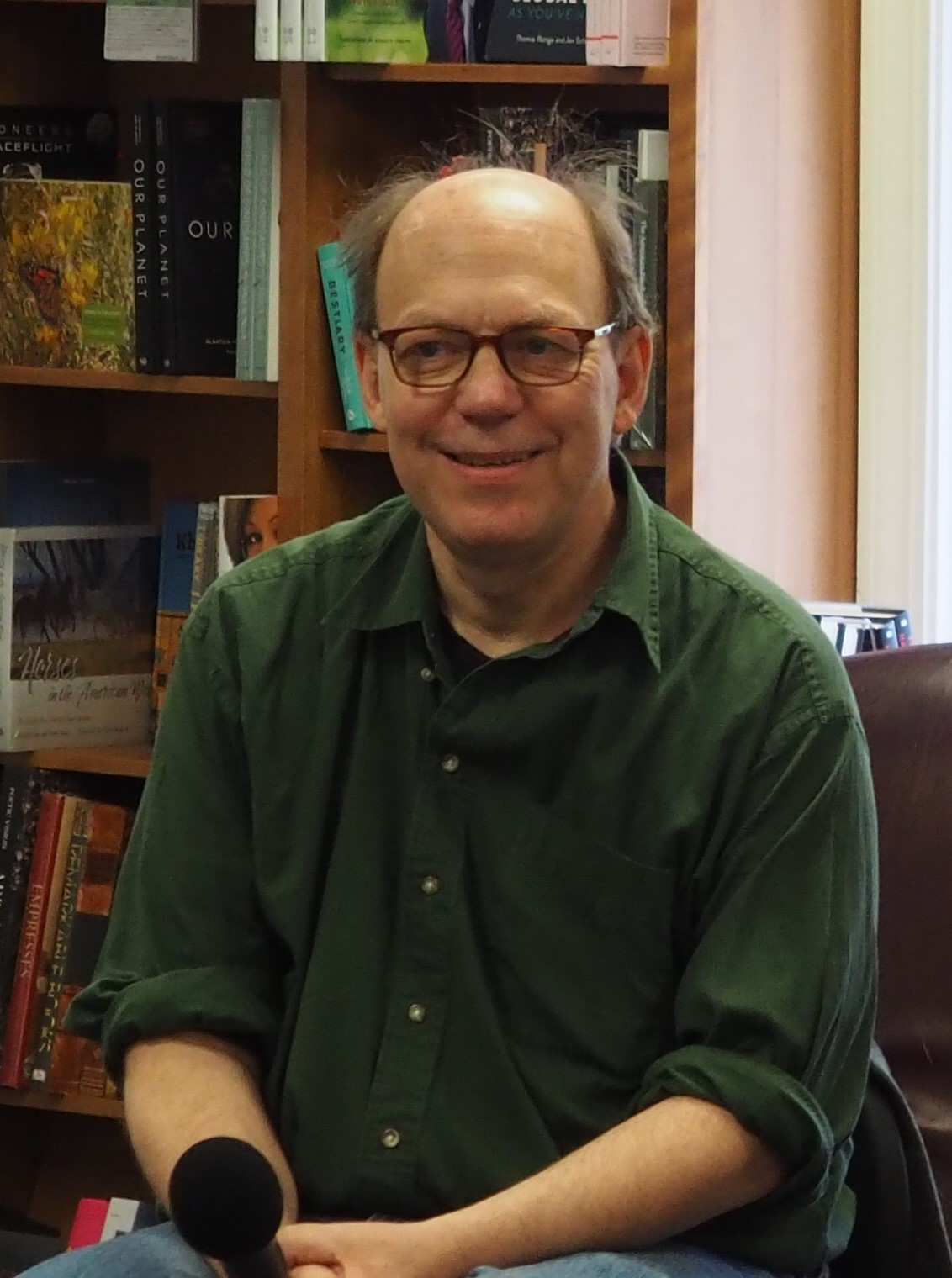 Greg Grandin